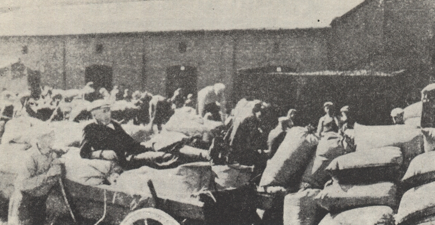 Food contingents enforcement in German-occupied Poland. Białystok region.